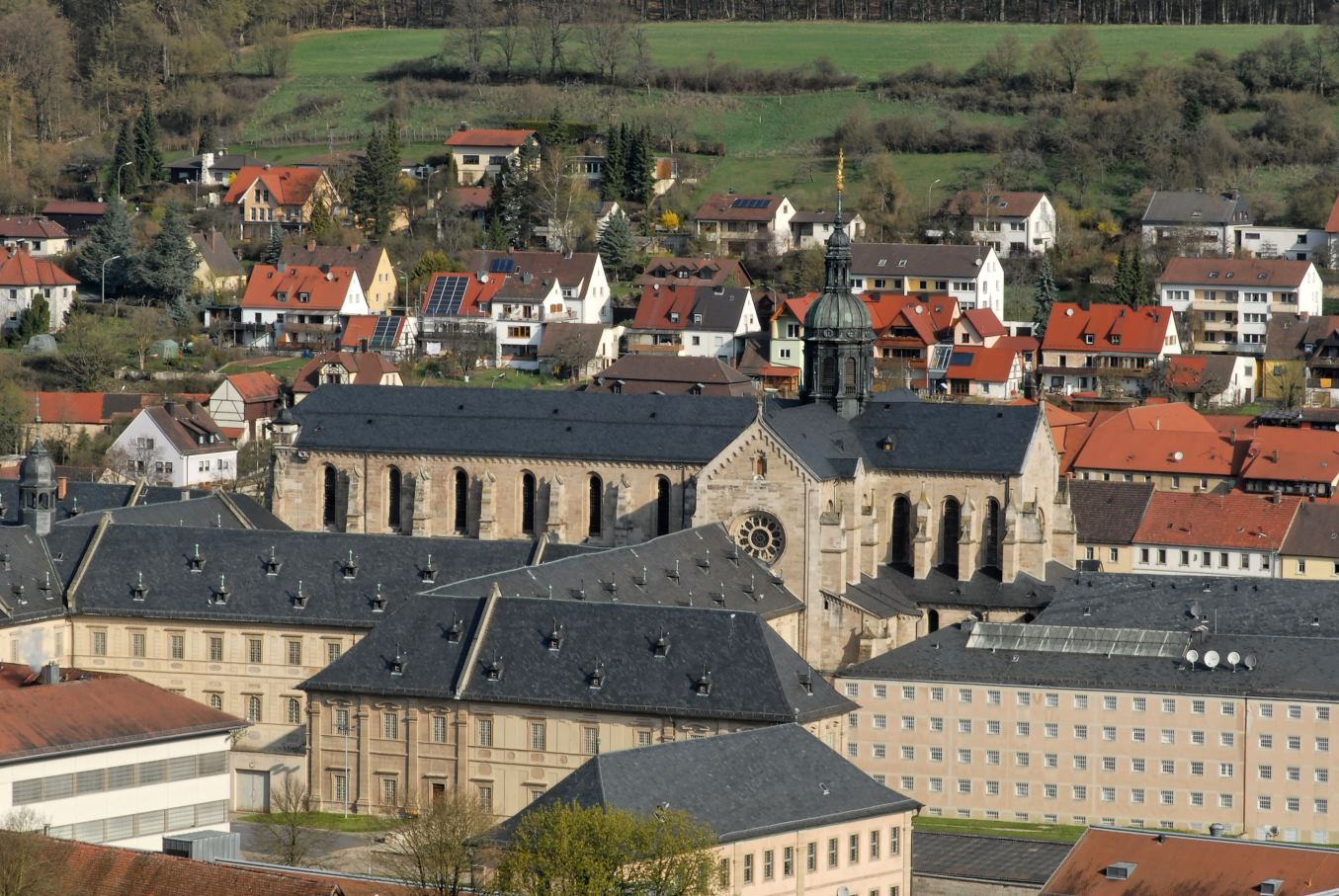 Ebrach, View of monastery church from Southside